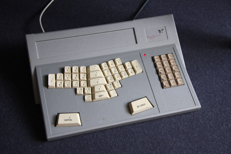 Veyboard from 2001